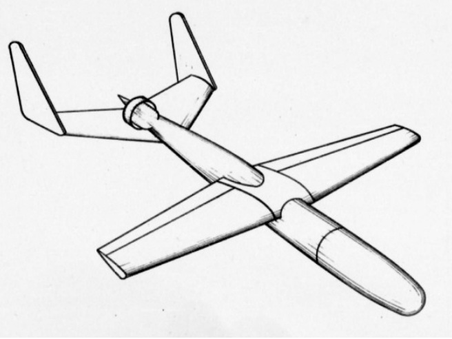 First prototype of wing-attached airframe for KINGFISHER Type A SWOD MARK 11.